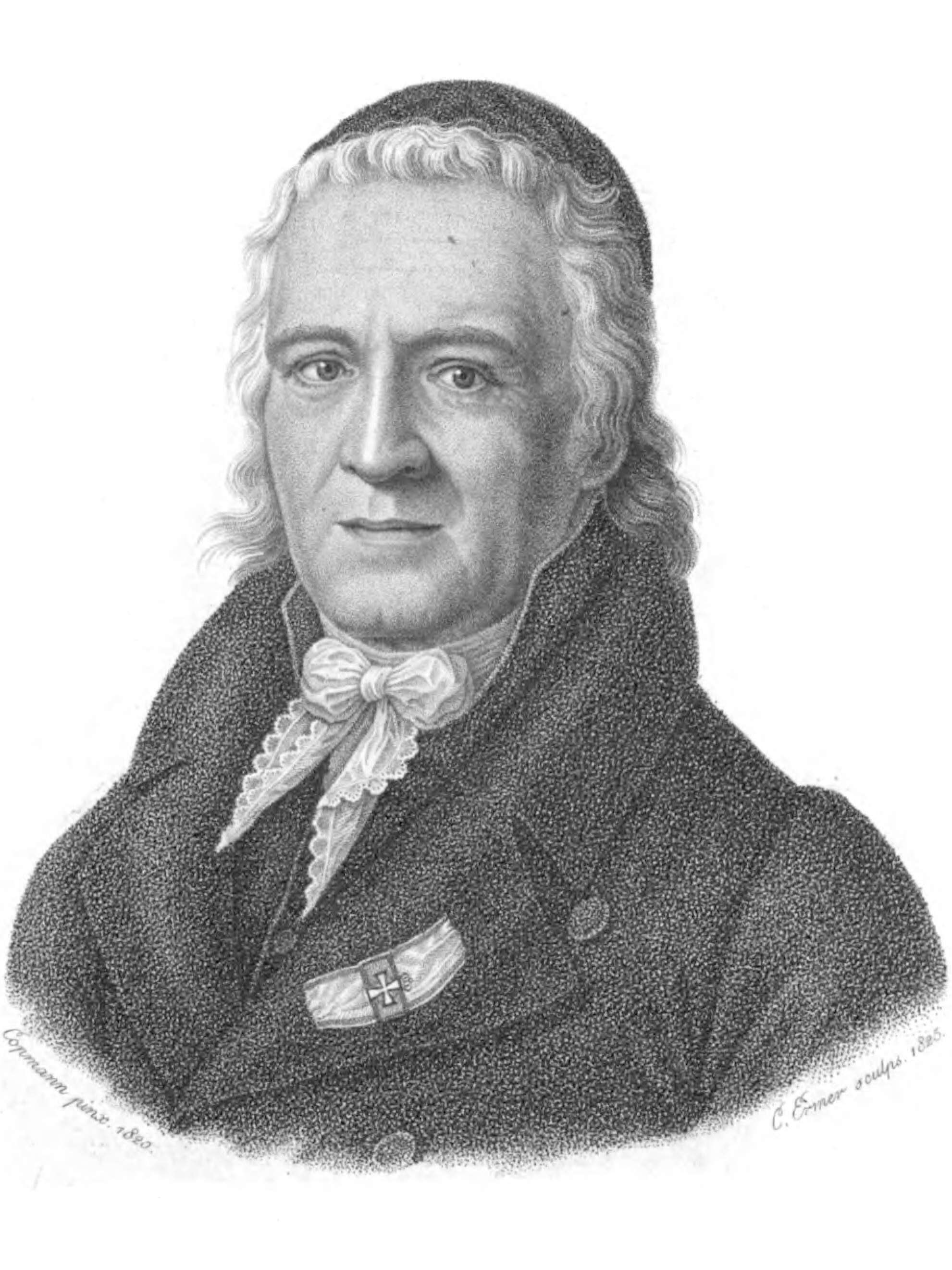 Karl Leonhard Reinhold, Austrian Philosopher.